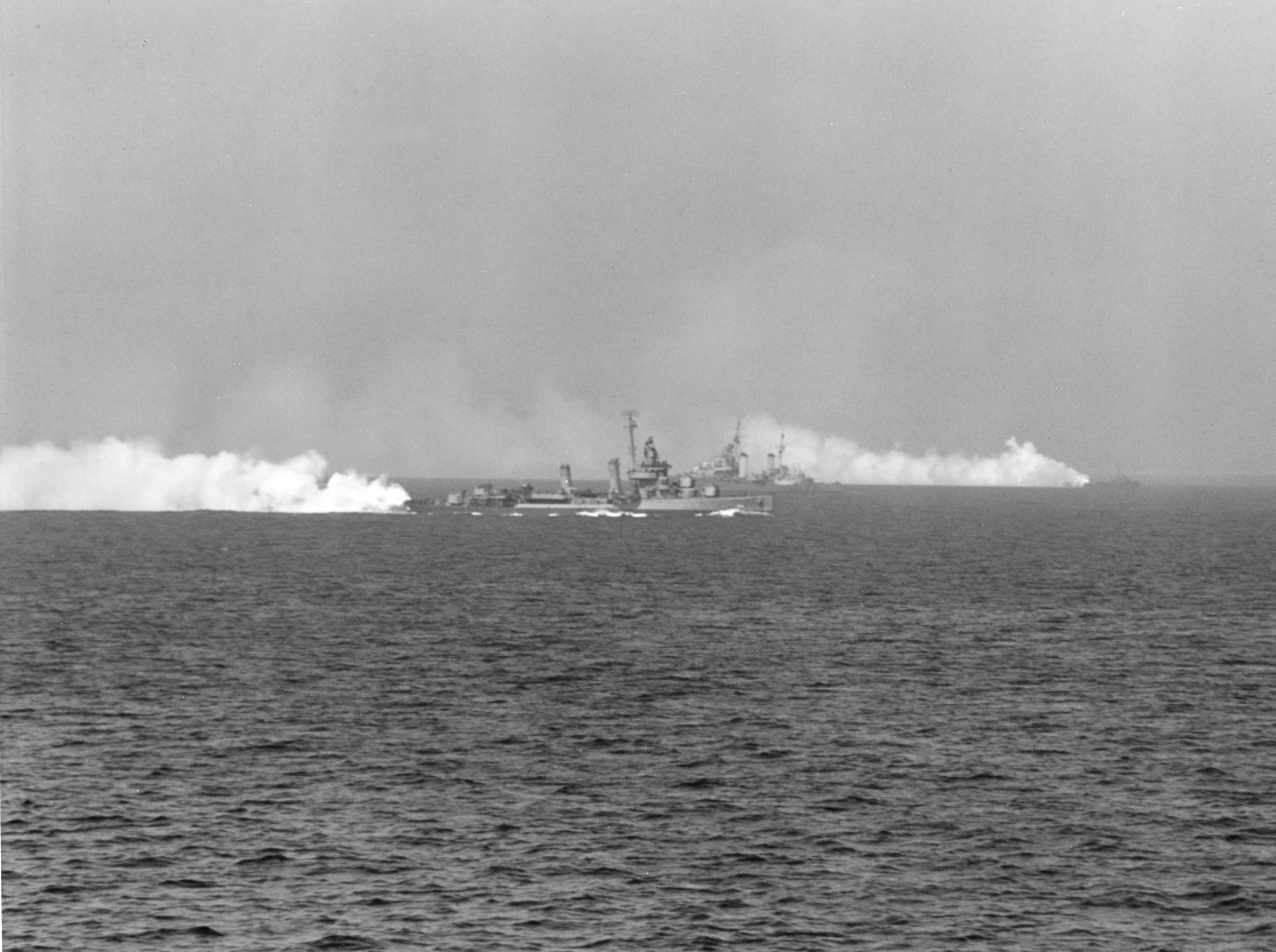 The U.S. Navy destroyer USS Gleaves (DD-423) laying smoke off the beach-head during the invasion of Southern France on 18 August 1944. The Royal Navy light cruiser HMS Dido (37) appears in center background.